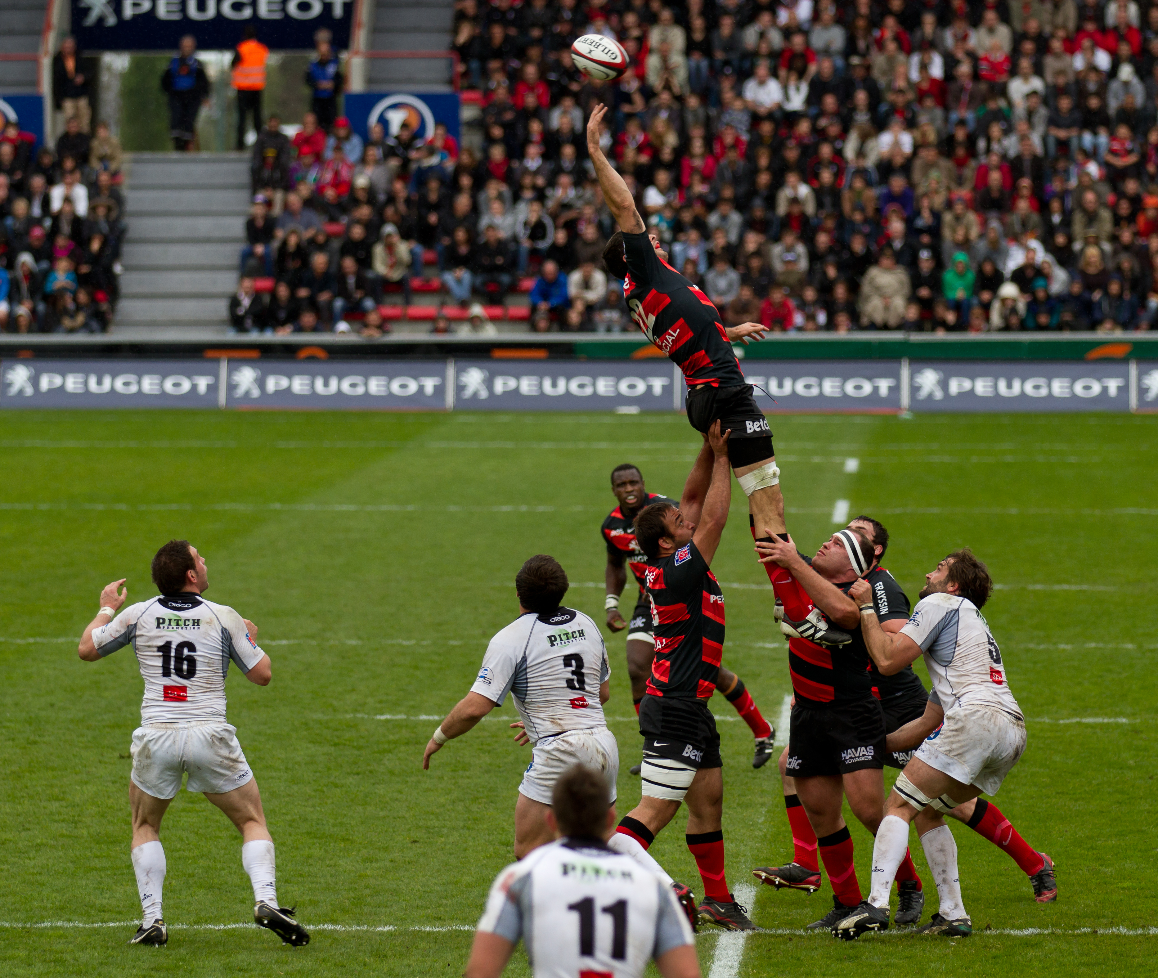 Top 14 — 21 April 2012, Stade Ernest-Wallon. Match between: Stade toulousain — CA Brive